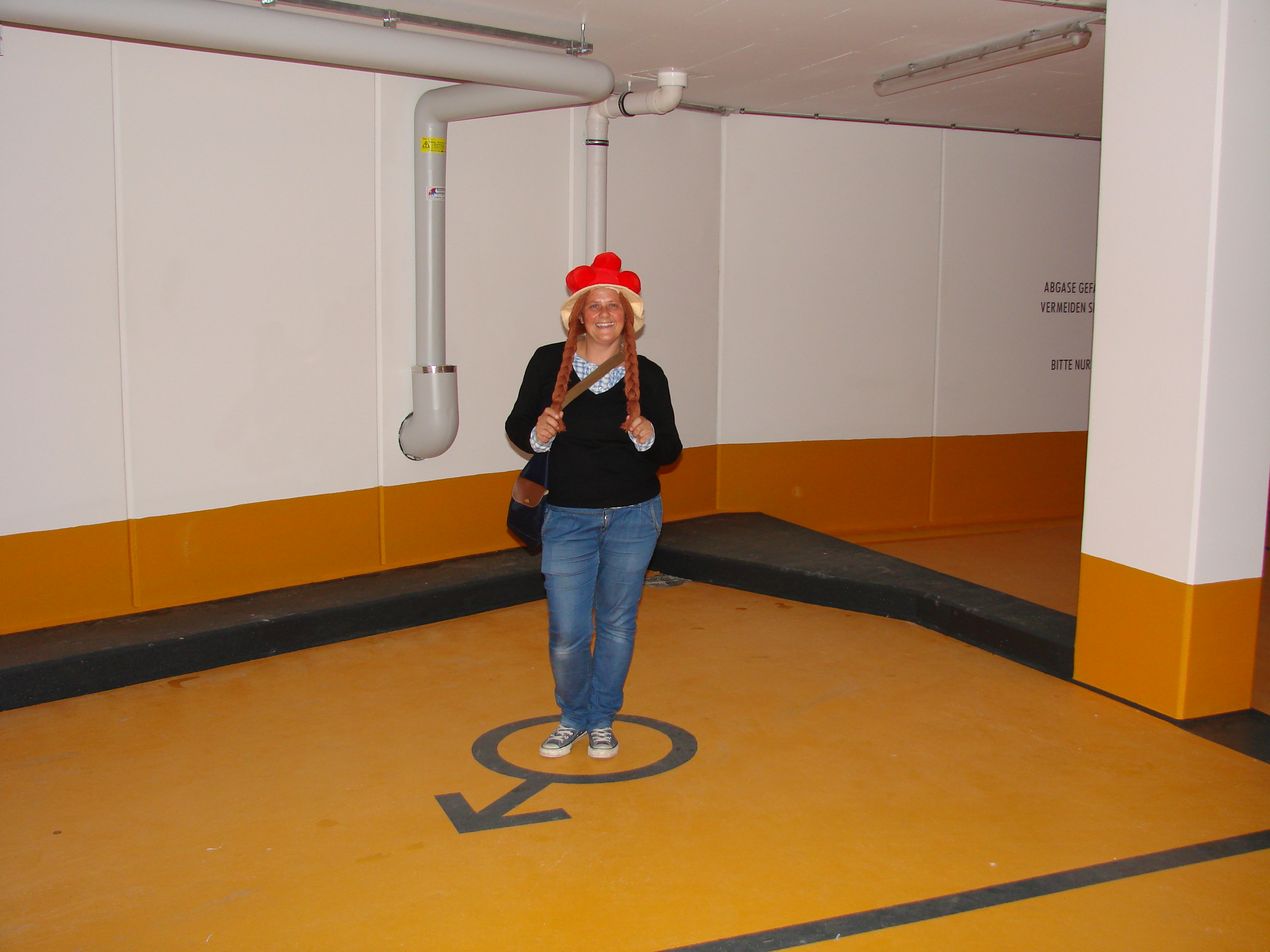 Triberg lady on a mens parking lot